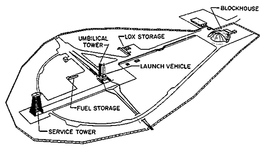 Launch Complex 14 used for Project Mercury and first flights of Gemini